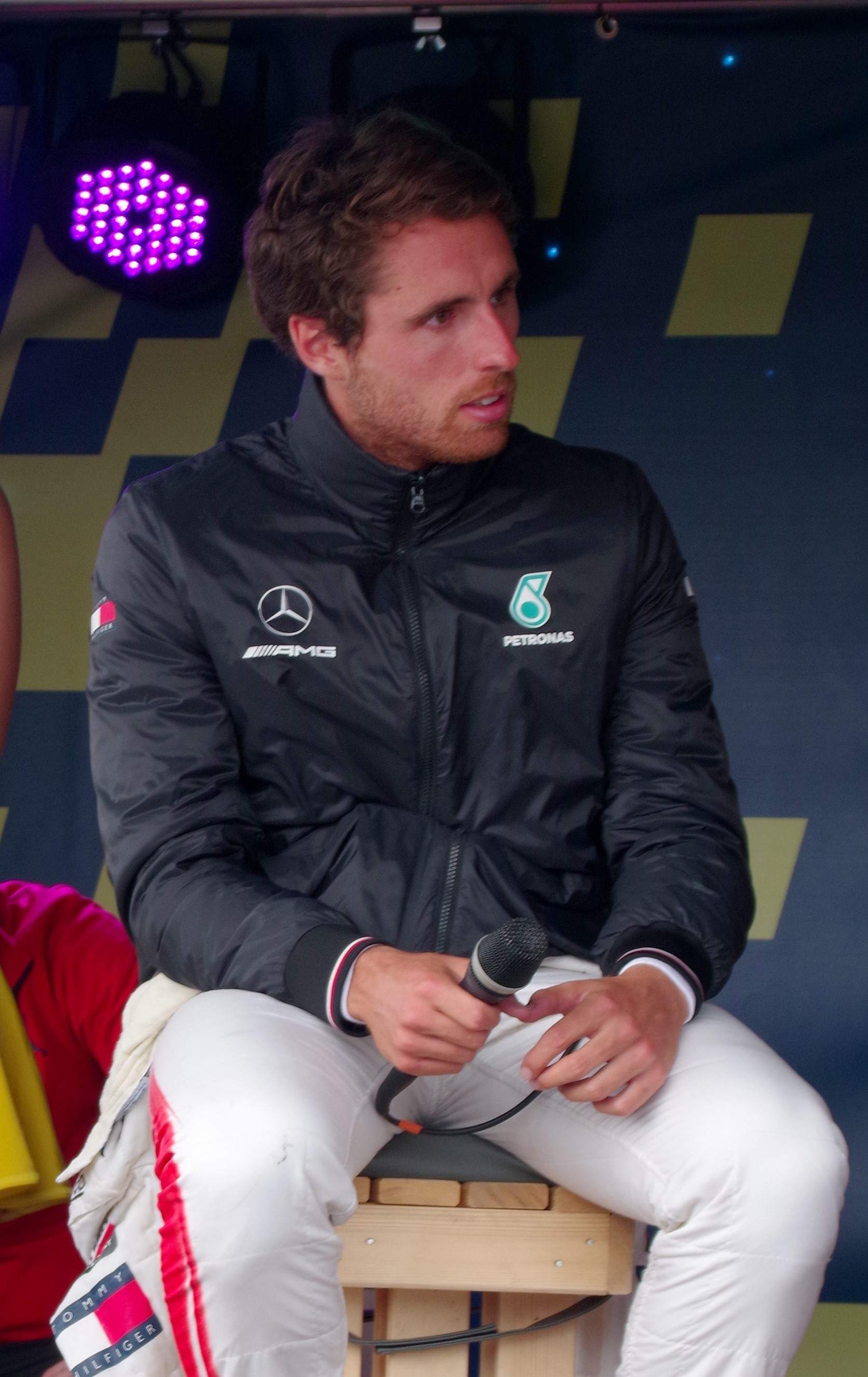 Daniel Juncadella, Brands Hatch 2018.